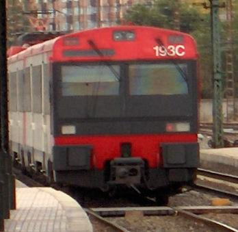 Train Class 440 of the spanish RENFE railway at Valladolid station